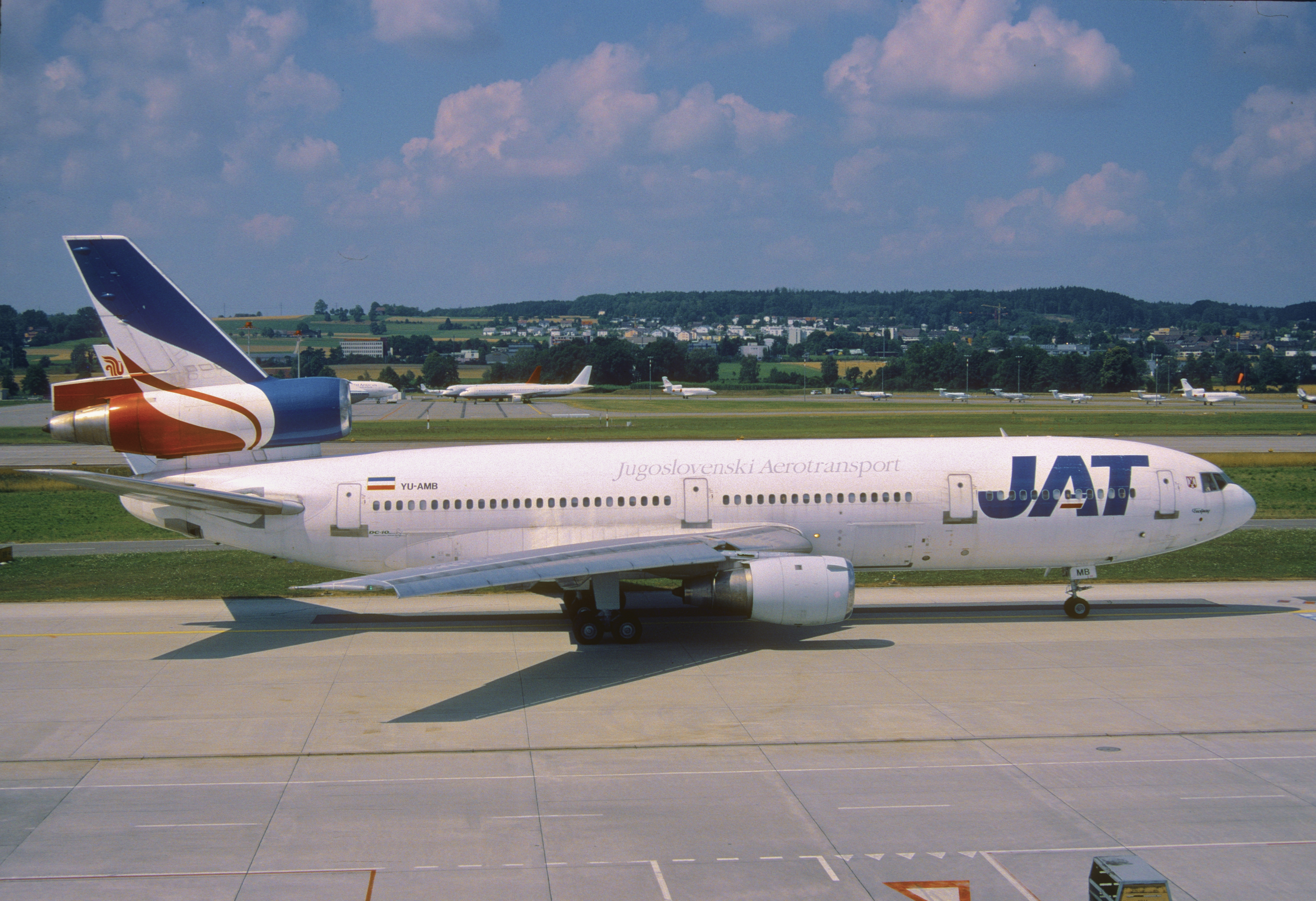 First flight: March 5, 1979, delivered to JAT on May 14, 1979, stored and later scrapped at Nîmes Airport in June 2005. The aircraft was named 'City of Belgrade'...(c/n 46988/ 278)